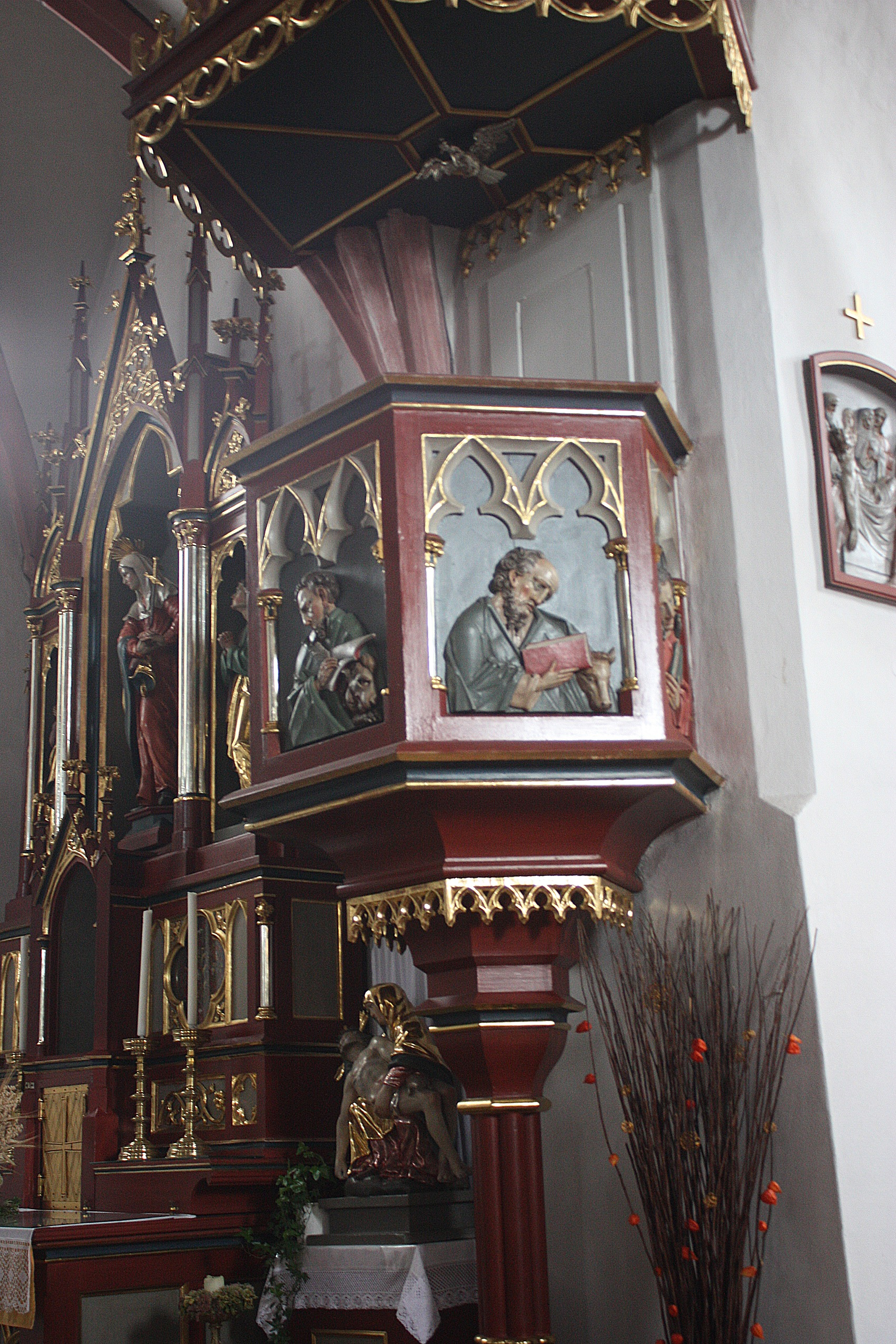 Kastl bei Kemnath, the village church, the pulpit